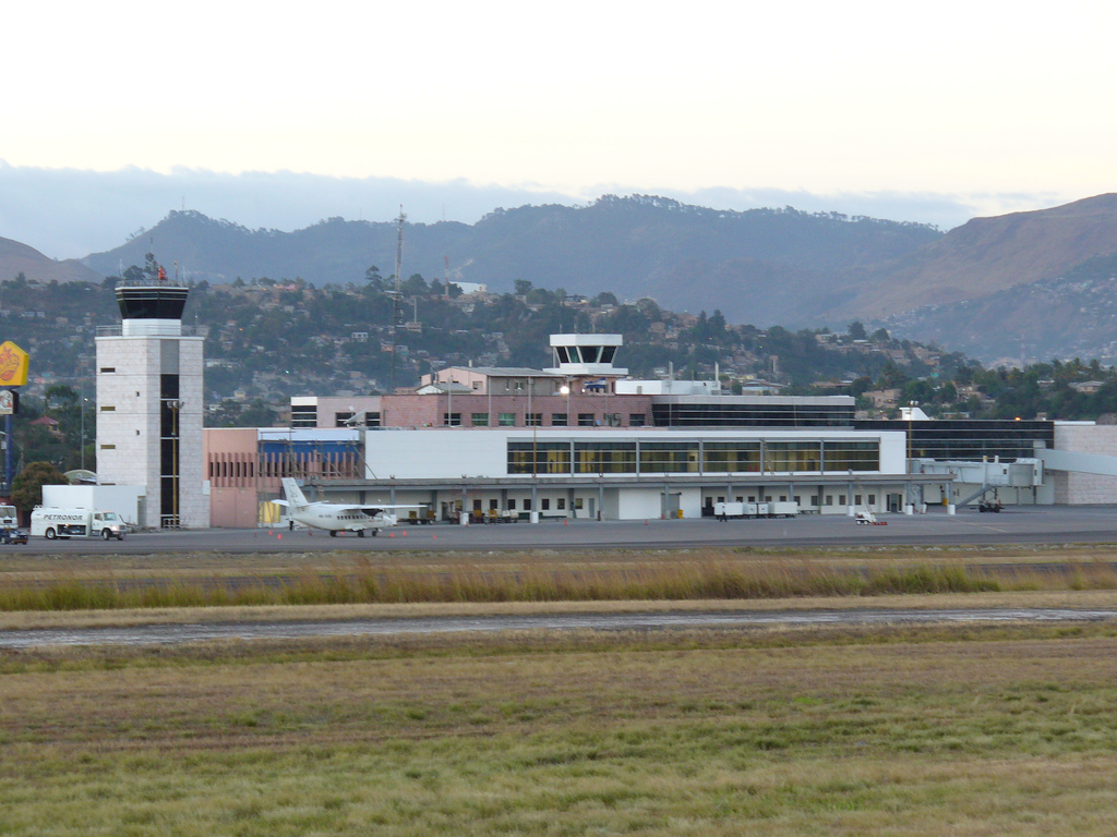 Toncontin International Terminal.